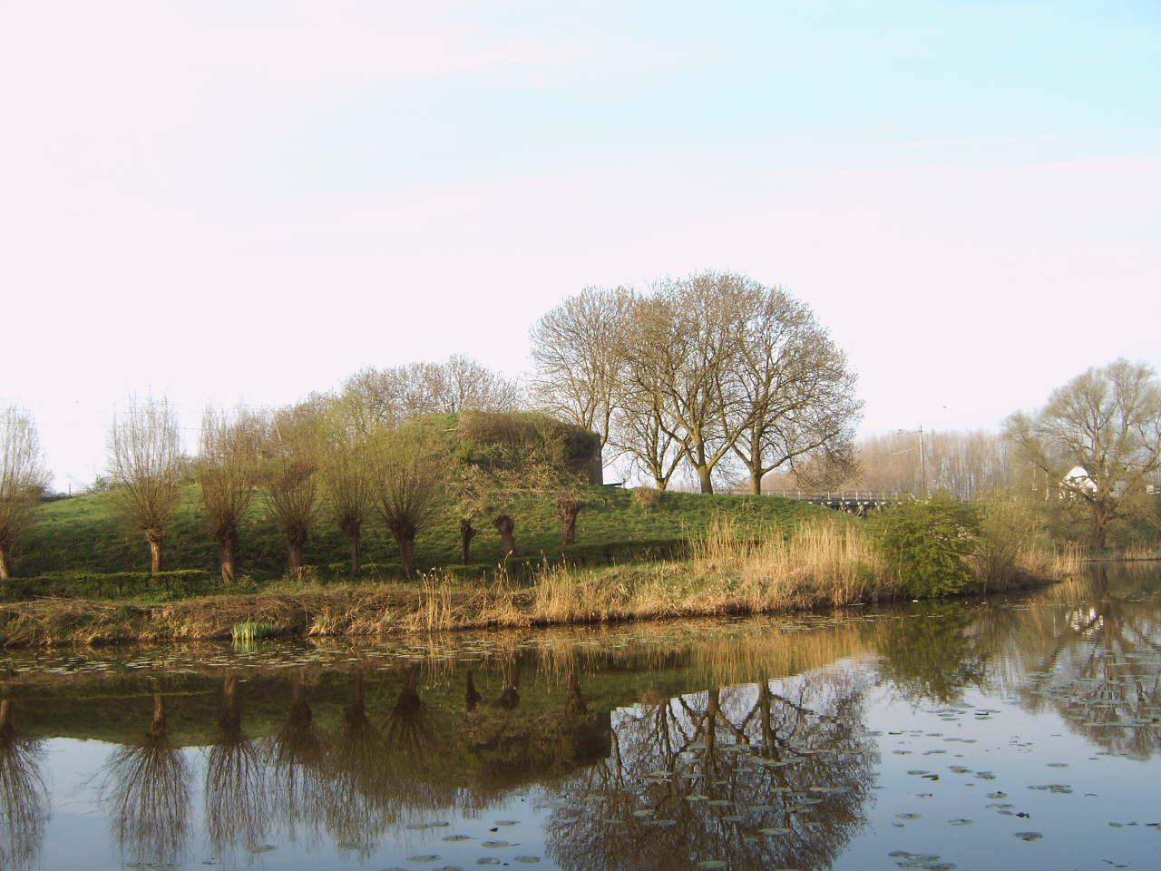 Small fortress, built to defend weak spot in inundations defence system (a railway went through it), near Leerdam, the Netherlands, part of the Nieuwe Hollandse Waterlinie.